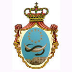 Arm of coat of the Immaculate brotherhood of Taranto